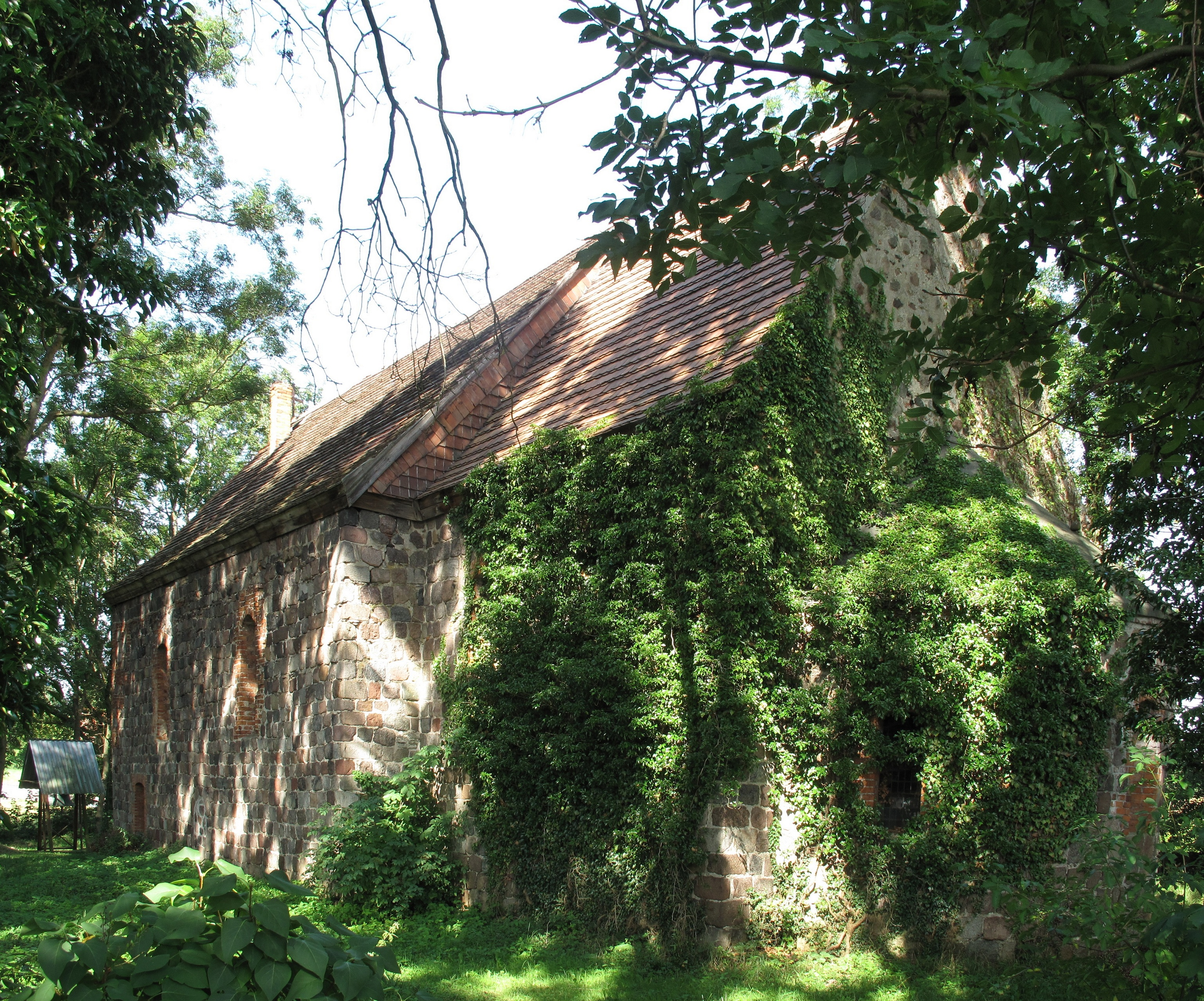 Listed village and Fieldstone church in Grunow, a village of the municipality Oberbarnim in the District Märkisch-Oderland, Brandenburg, Germany. The church was built in the 13th-century. It has the unusually high number of seven Schachbrettsteinen (german for: chessboard stones) and an in this region unique stone with the Jerusalem cross.